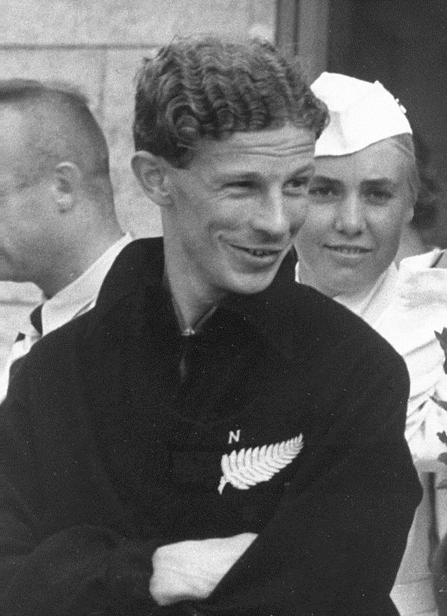 John Lovelock of New Zealand relaxes in the Olympic Stadium during the 1936 Olympic Games in Berlin. Lovellock won the gold medal in the 1500 metres event